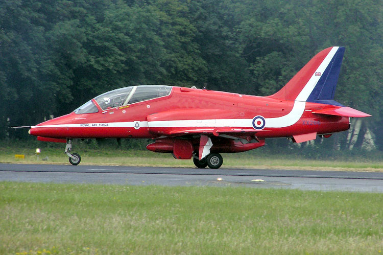 British Aerospace Hawk of the Red Arrows. Taken by Adrian Pingstone at Kemble Airfield, Gloucestershire, England in June 2004 and released to the public domain.